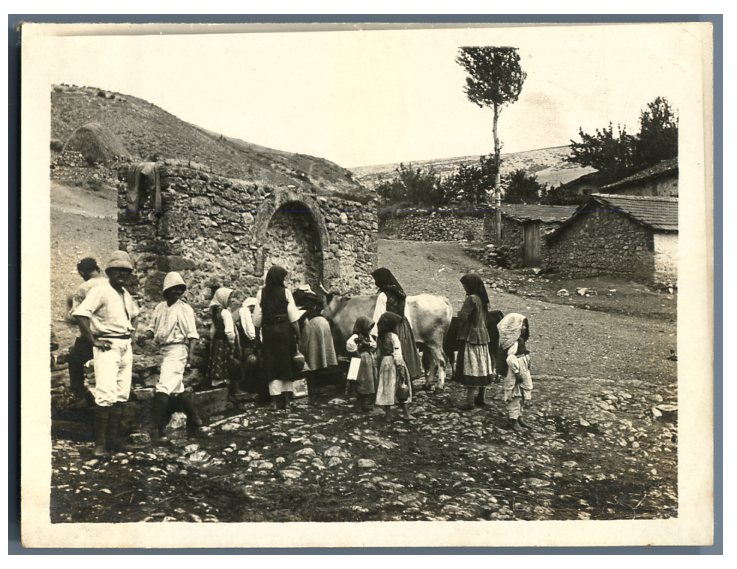 Peasants from Banitsa.